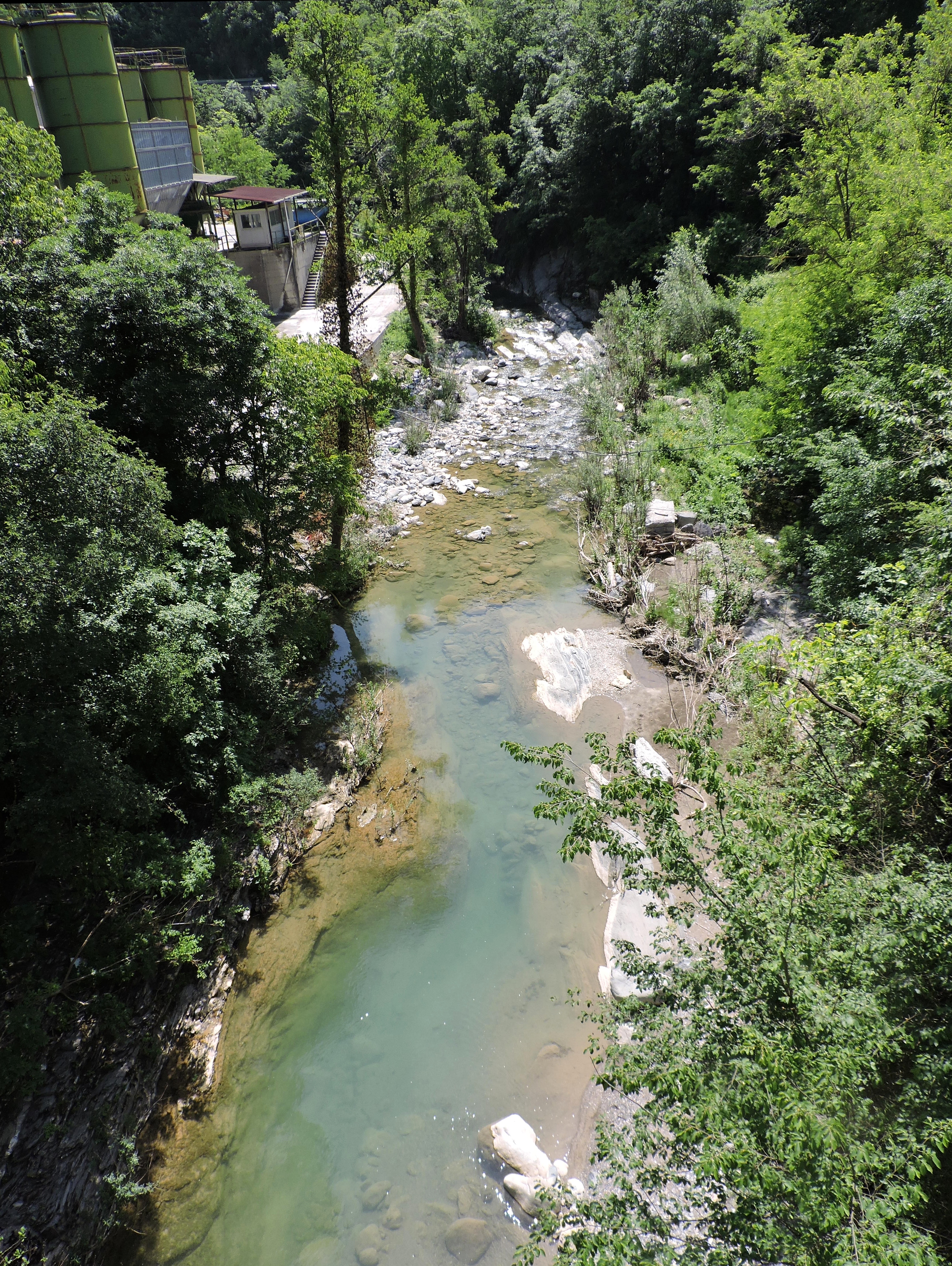 Giara di Rezzo from statale della Valle Arroscia bridge (Liguria, Italy)